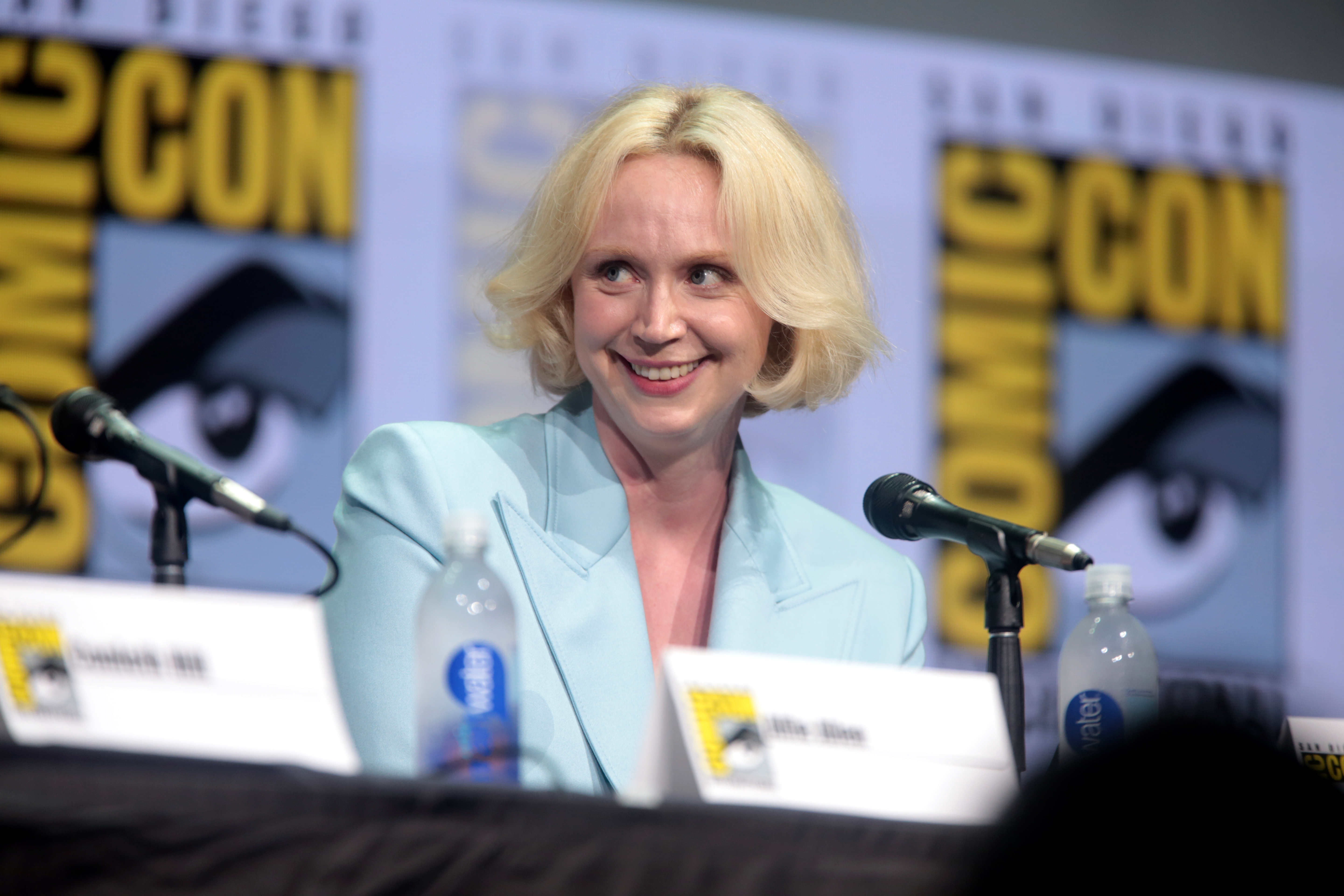 Gwendoline Christie speaking at the 2017 San Diego Comic Con International, for "Game of Thrones", at the San Diego Convention Center in San Diego, California.